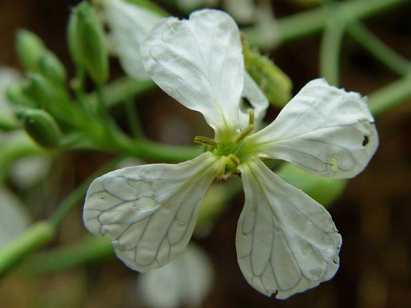 Description : Raphanus sativus, Wild Radish. Location Glen Canyon Park - San Francisco, California